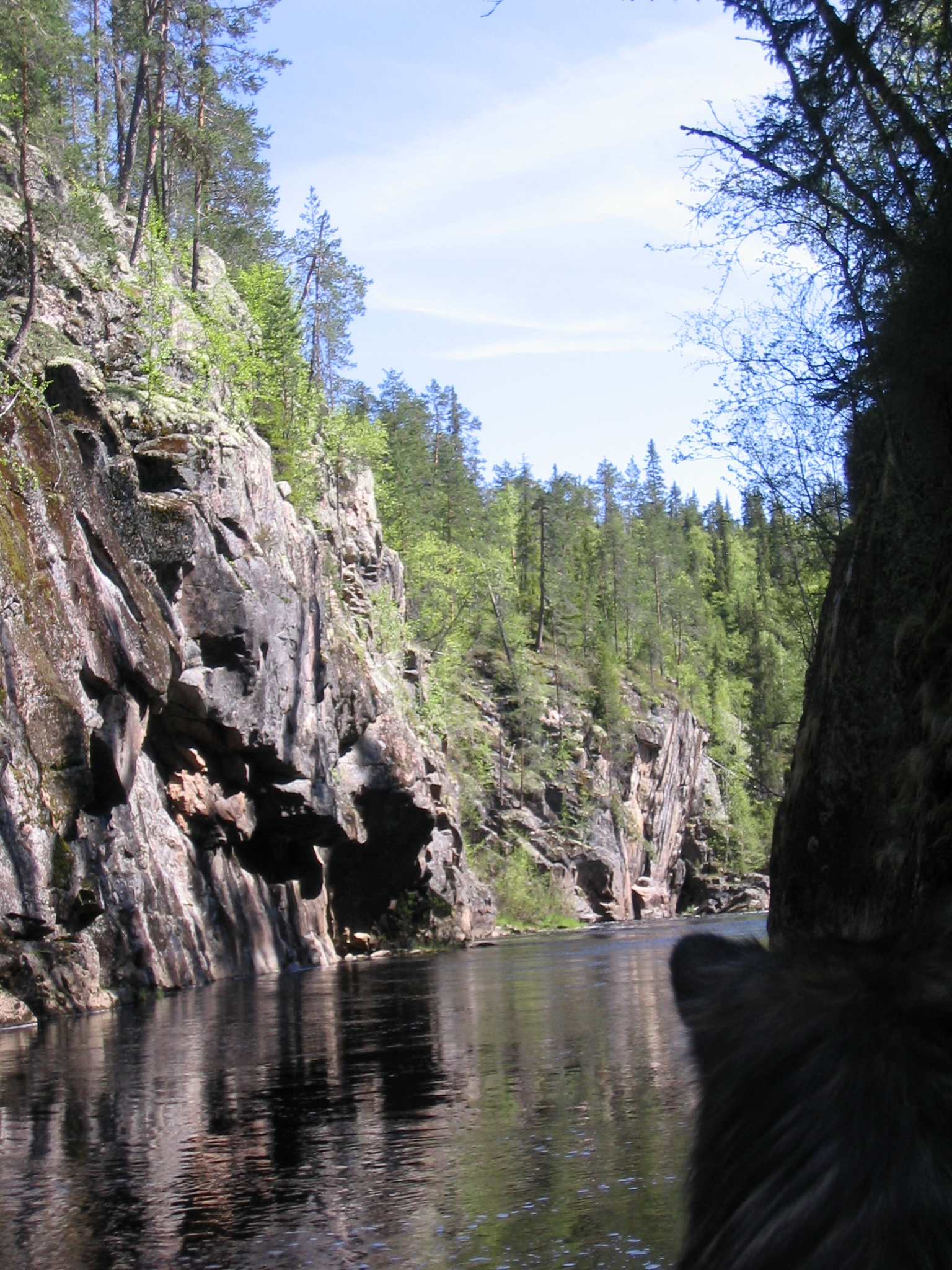 Canyon of Auttijoki in Rovaniemi, Finnish Lapland.